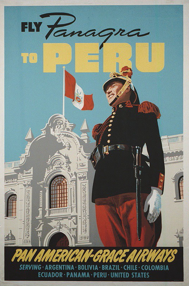 Poster from the Don Thomas Collection. Mr. Thomas was a collector of aircraft memorabilia who donated several posters to the San Diego Air and Space Museum. Repository: San Diego Air and Space Museum Archive